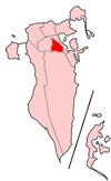 Map of Bahrain showing Madinat 'Isa municipality. The municipalities were dissolved in 2002 and replaced with governorates.